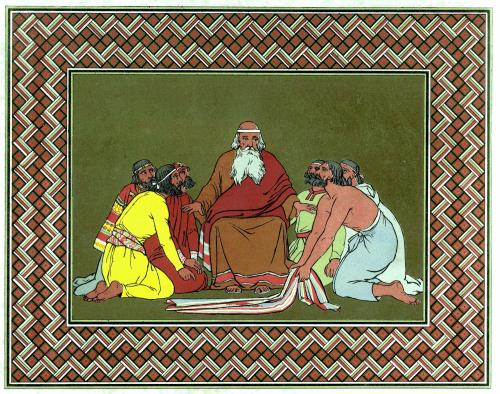 Illustration by Owen Jones from "The History of Joseph and His Brethren" (Day & Son, 1869). Scanned and archived at where it was marked as Public Domain. Text from Book: And he knew it, and said, it is my son's coat; an evil beast hath devoured him; Joseph is without doubt rent in pieces. And Jacob rent his clothes, and put sack cloth upon his loins. And mourned for his son many days. Genesis, C. XXXVII. V. 33. 34.